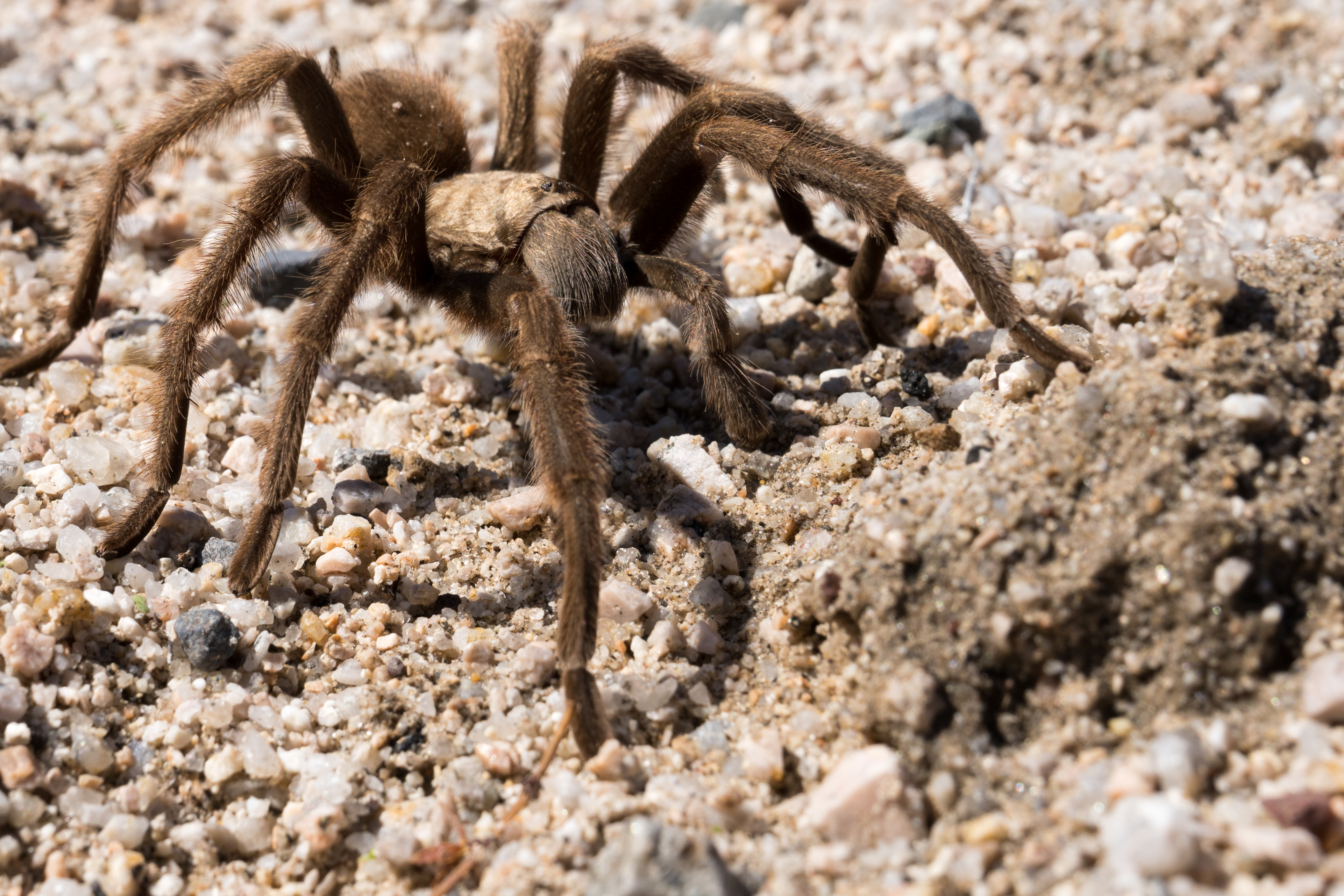 Aphonopelma mojave is a species of spider, in the family Theraphosidae (tarantulas). It is native to the Mojave Desert in Southern California, United States. Photo by Jesse Pluim, BLM